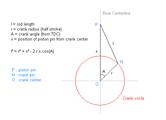 Diagram showing geomtric layout of piston pin, crank pin and crank center in an iternal combustion engine. joecar 18:11, 17 May 2006 (UTC)